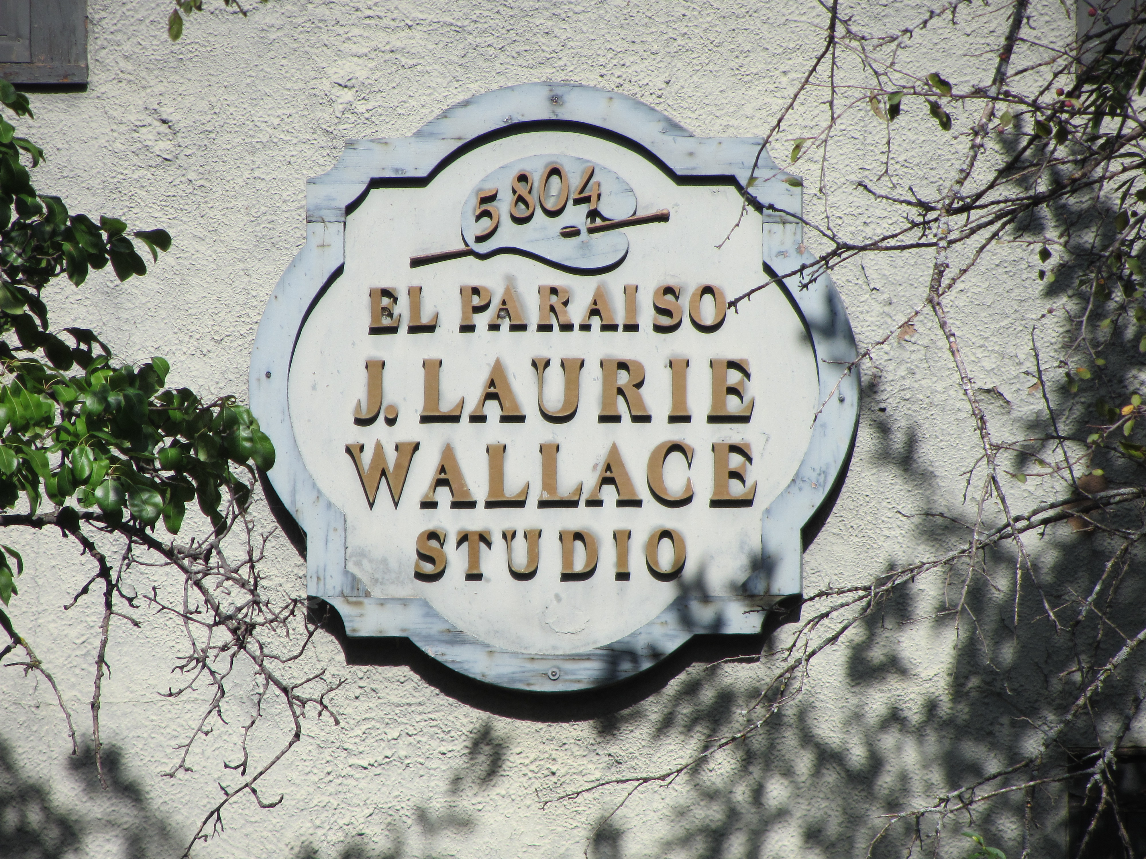 Plaque commemorating the studio of J. Laurie Wallace in Omaha, NE. The studio is located at approximately 60th and Leavenworth Streets. September 2013